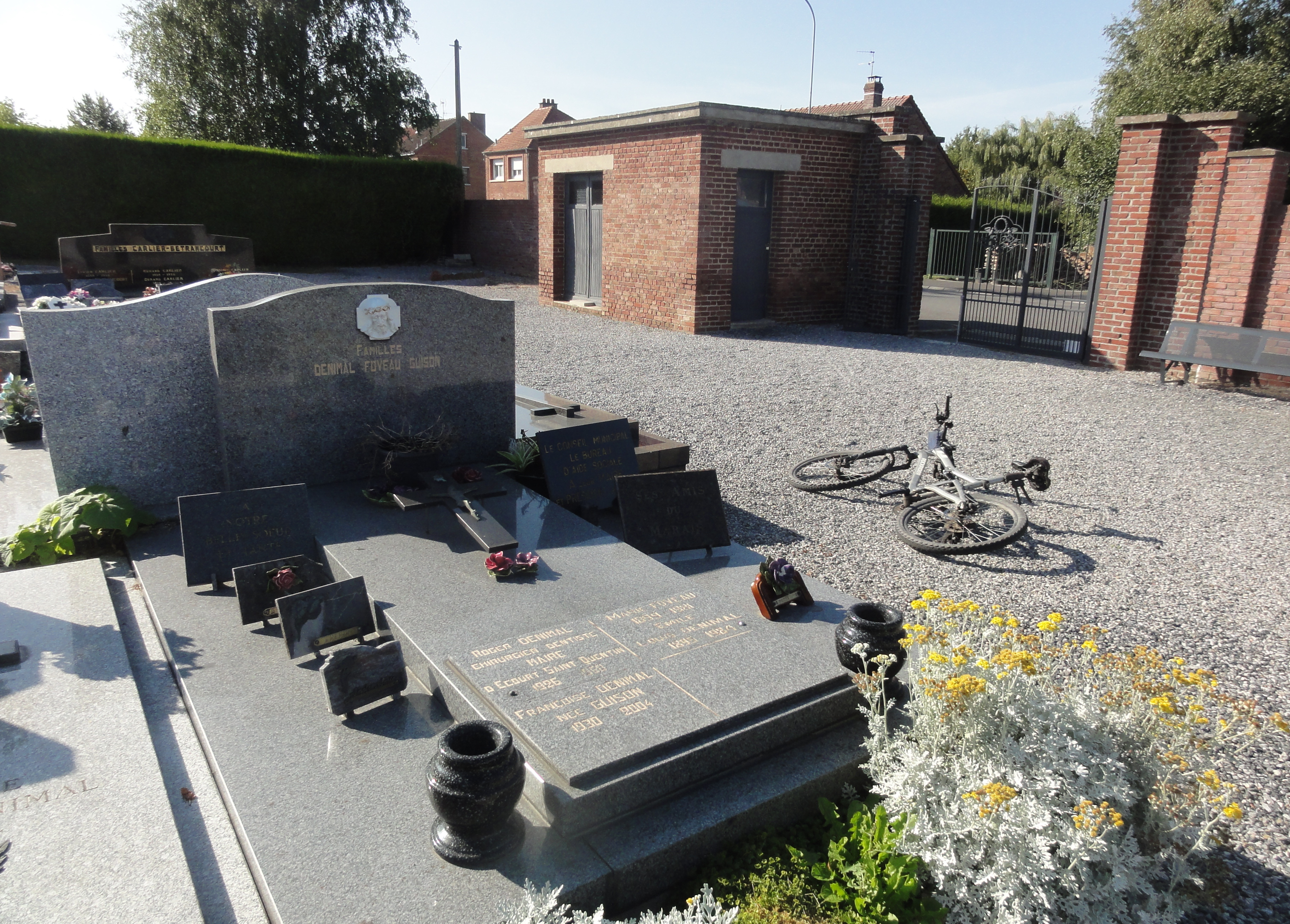 Depicted place: Q68692543